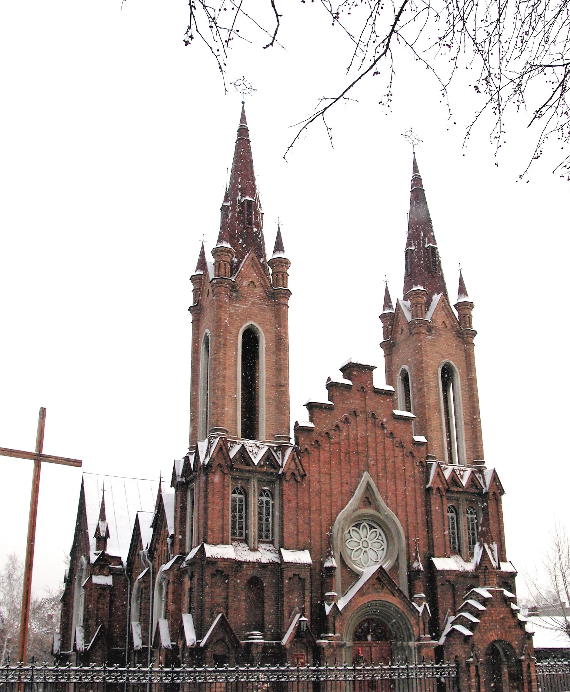 The Organ Hall of the Krasnoyarsk Krai Philarmonic Society. 26.12.2005. Dekabristov street, 20, Krasnoyarsk city, Russia. A very unusual architecture style for the Southern Siberia. Formerly a Polish Catholic church.